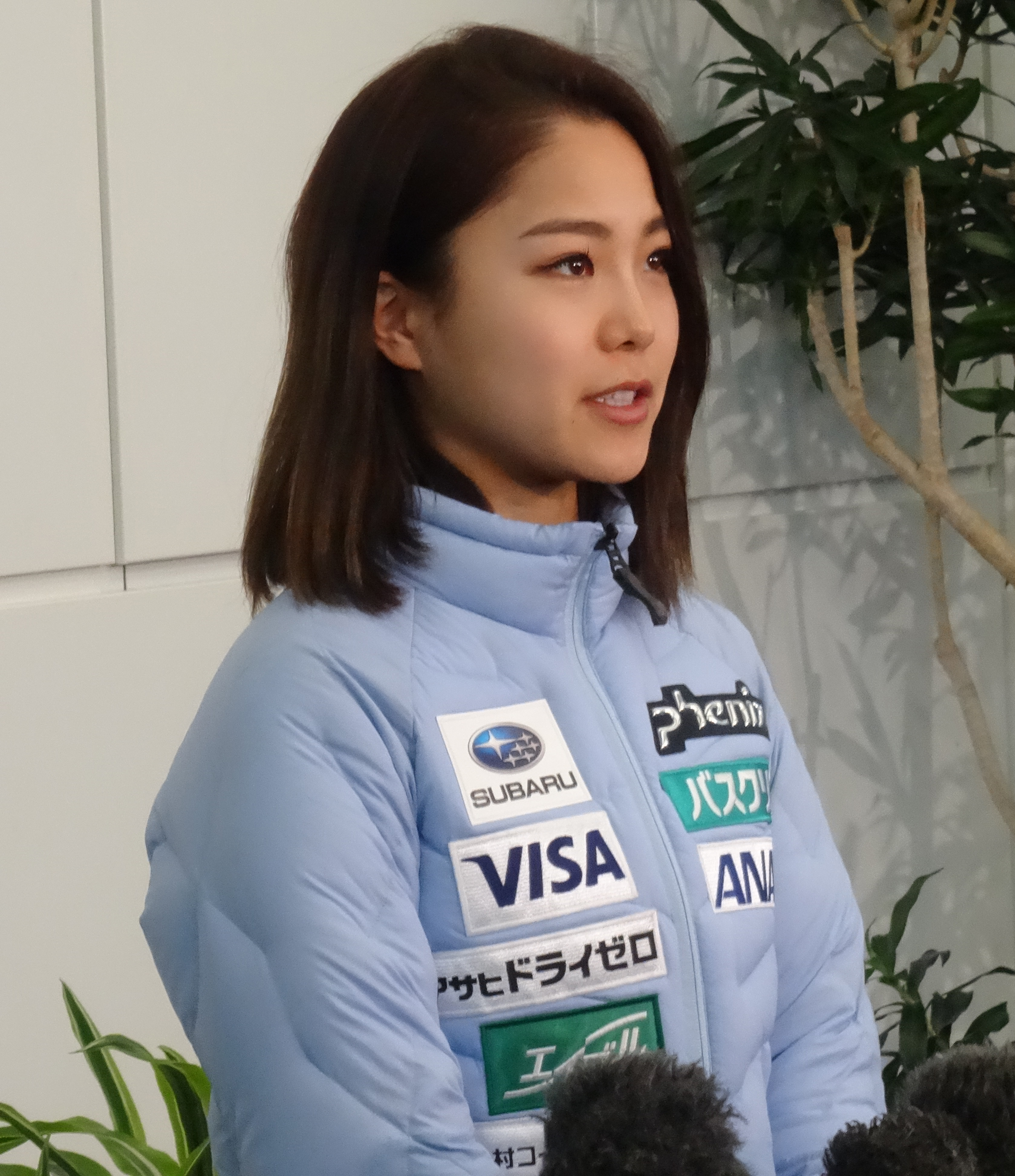 Sara Takanashi giving an interview to members of the press at Haneda Airport on January 4th, 2017, prior to her trip to Oberstdorf.